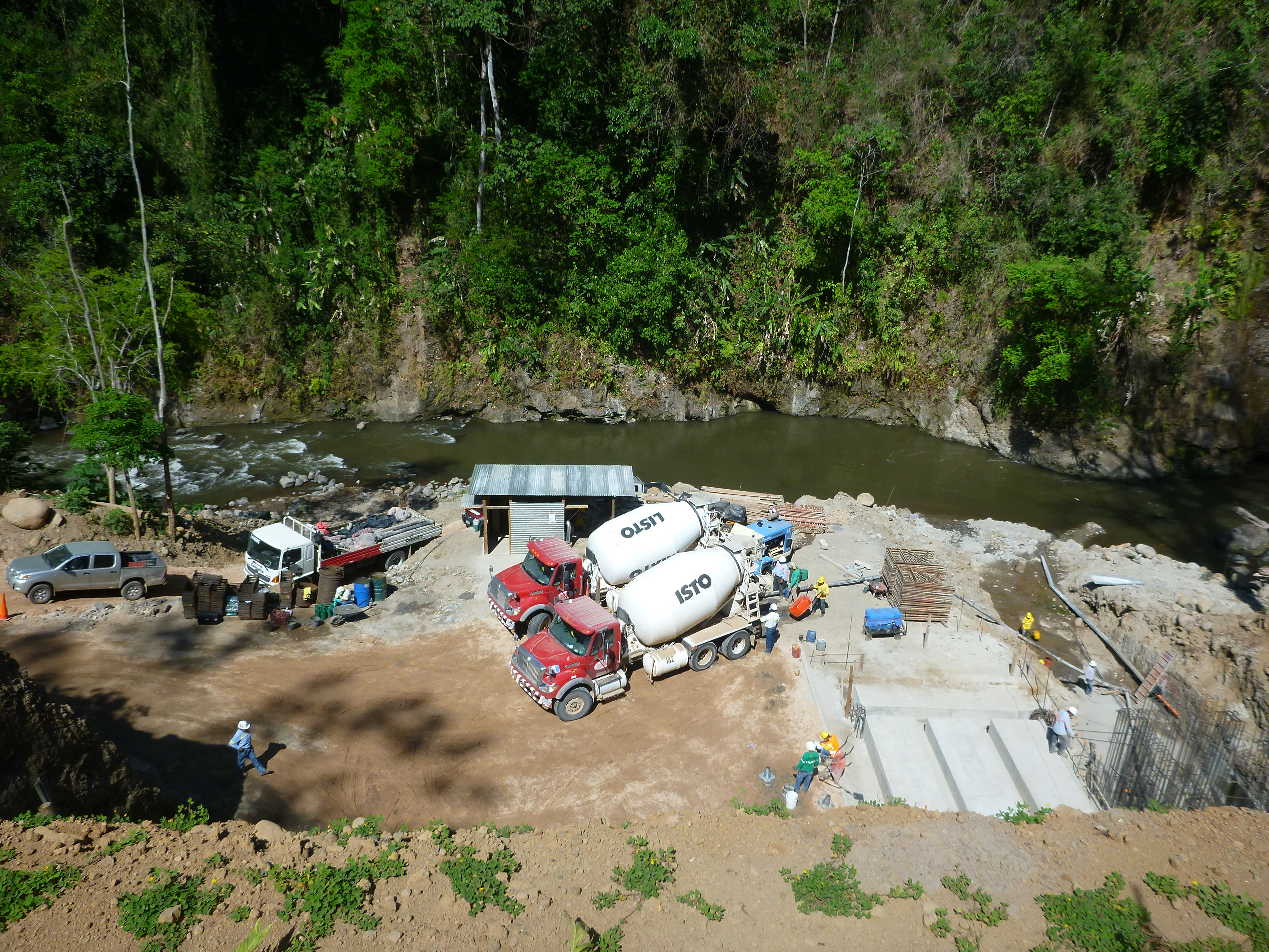 Unnamed Road, Guatemala